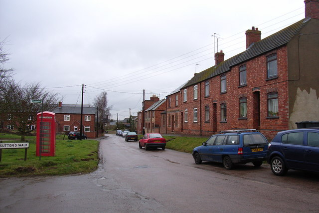 Astcote